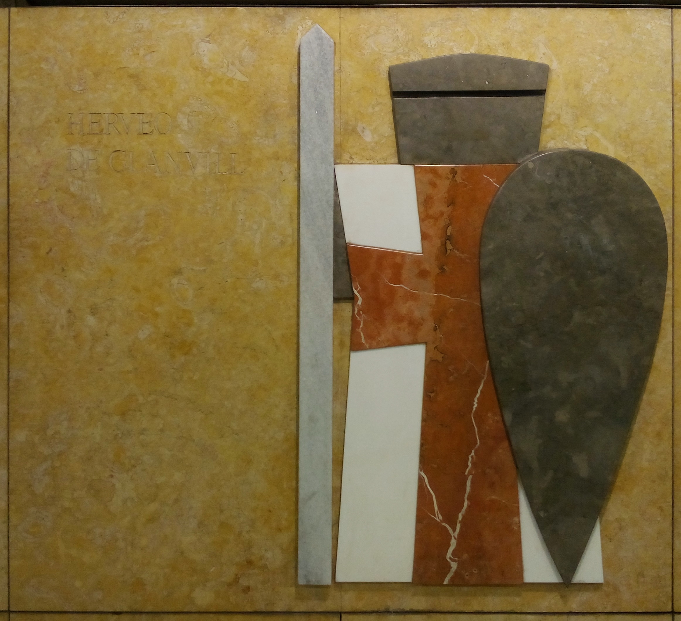 Stylized depiction of 12th-century Anglo-Norman Crusader Hervey de Glanvill, in the Martim Moniz Metro Station, in Lisbon, Portugal.